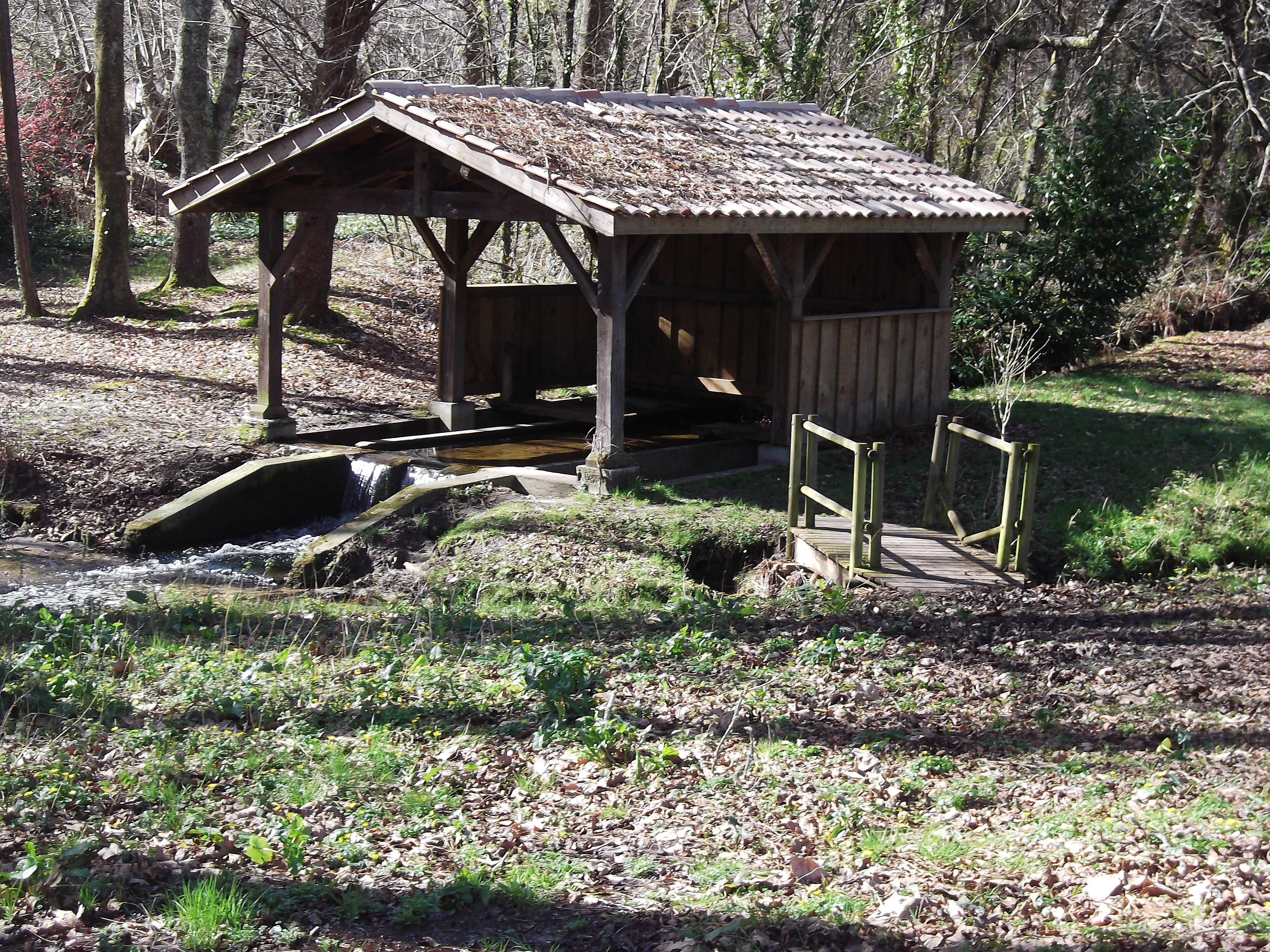 This is a "lavoir", which is located in Mées